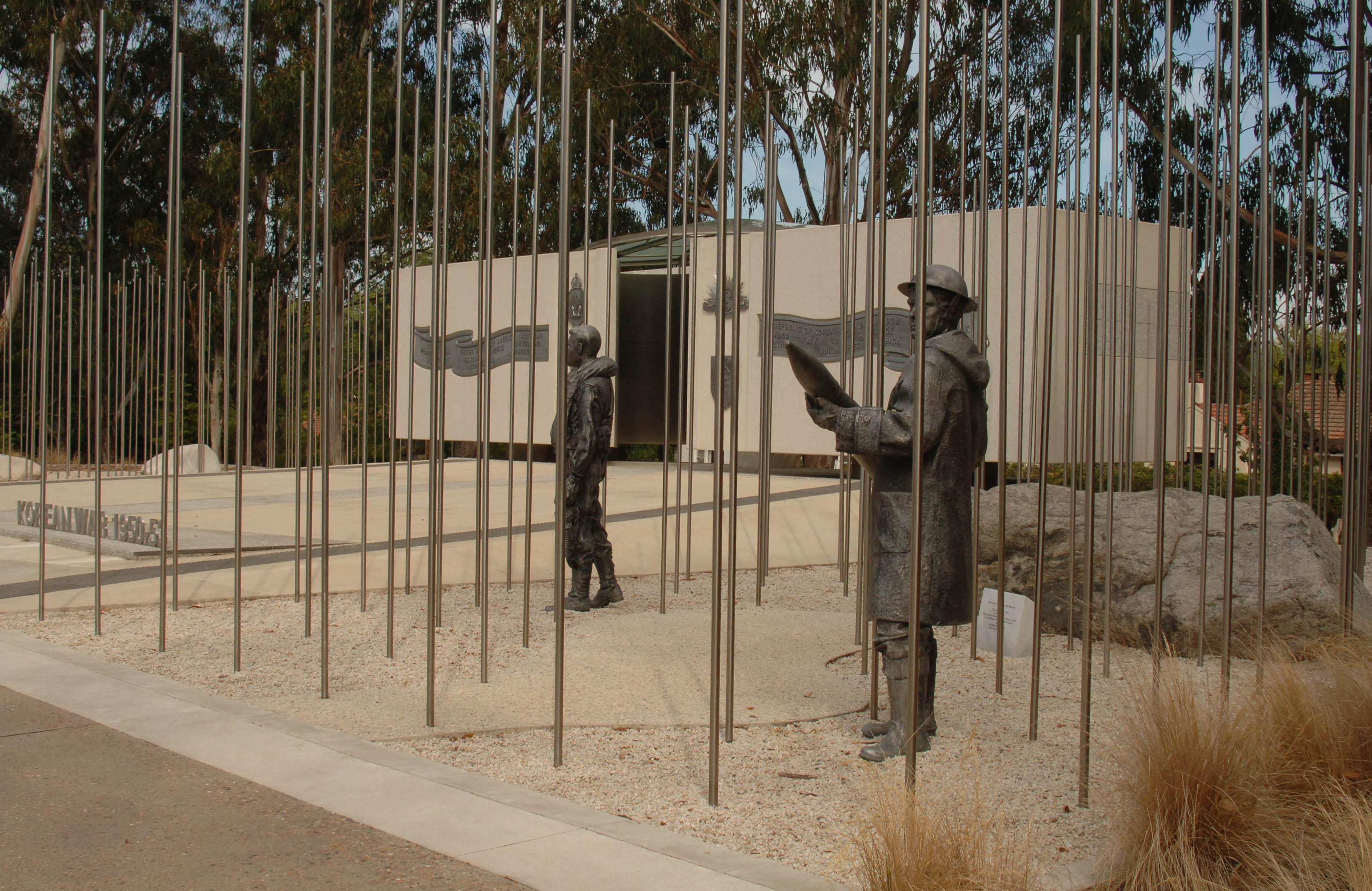 THIS MEMORIAL LINES ANZAC AVENUE BETWEEN THE AUSTRALIAN WAR MEMORIAL AND THE CAPITOL BUILDINGS. in Canberra